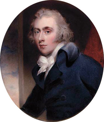 Charles Grey (1764-1845), M.P., facing left in blue coat, white waistcoat and tied cravat, powdered hair; red curtain, pillar and sky background signed on the obverse 'HBone' and in full on the counter-enamel 'Charles Grey Esq. M.P. Henry Bone pinxt Augst 1794' enamel on copper oval, 92 mm